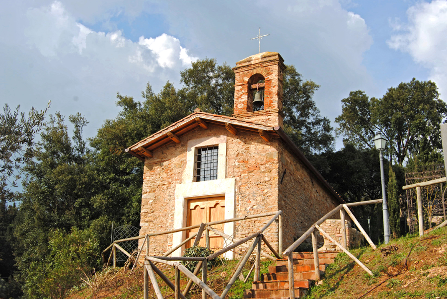 Oratory of Saint Lucy, Venturina Terme (Italy, province of Livorno) near the spa town "Calidario"